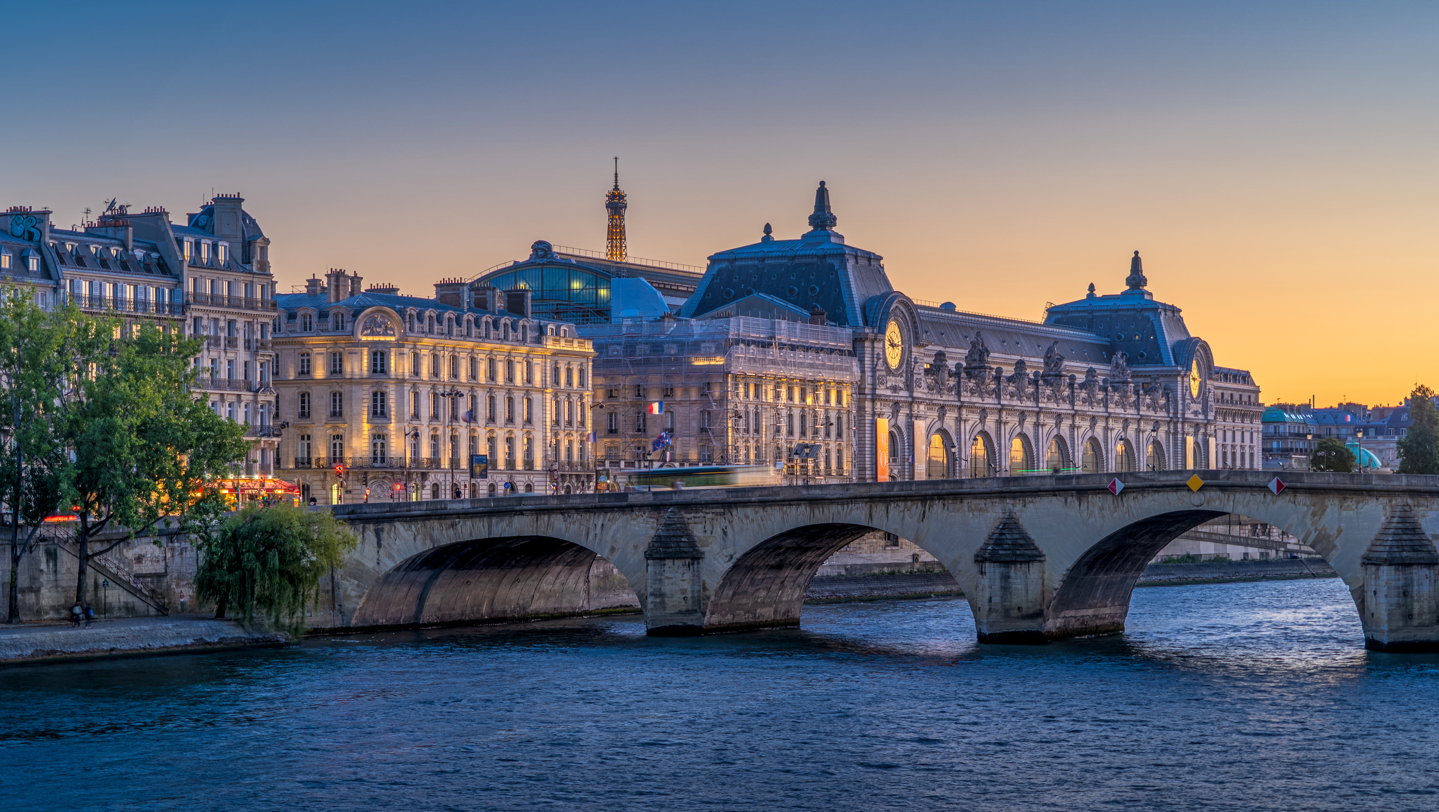 Pont Royal and Musée d'Orsay at dusk, Paris, France.